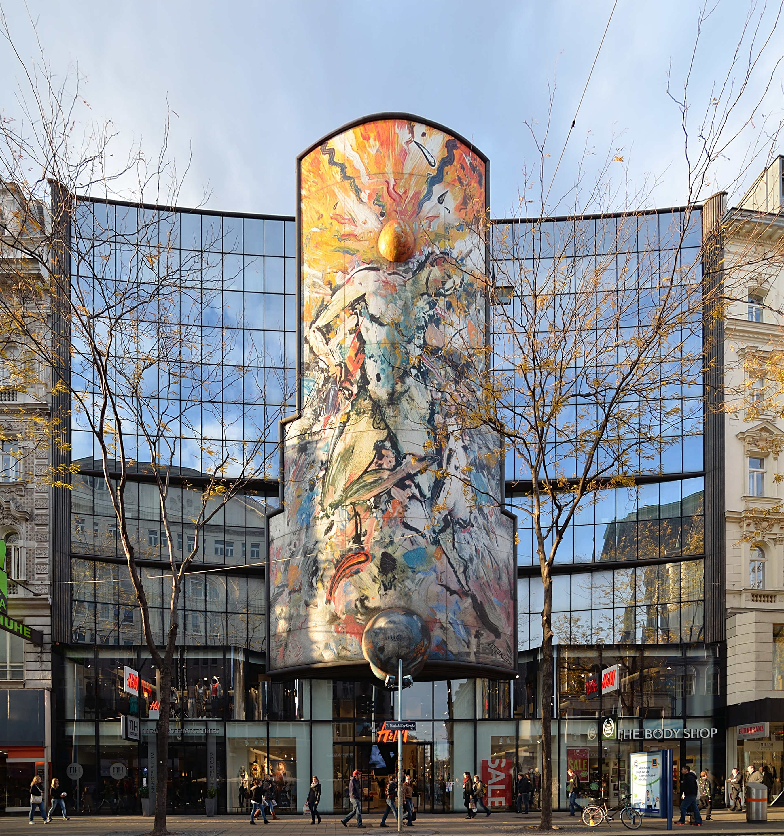 A wall painting created by Christian Ludwig Attersee on the fassade of a building in the Mariahilfer Straße in Vienna.